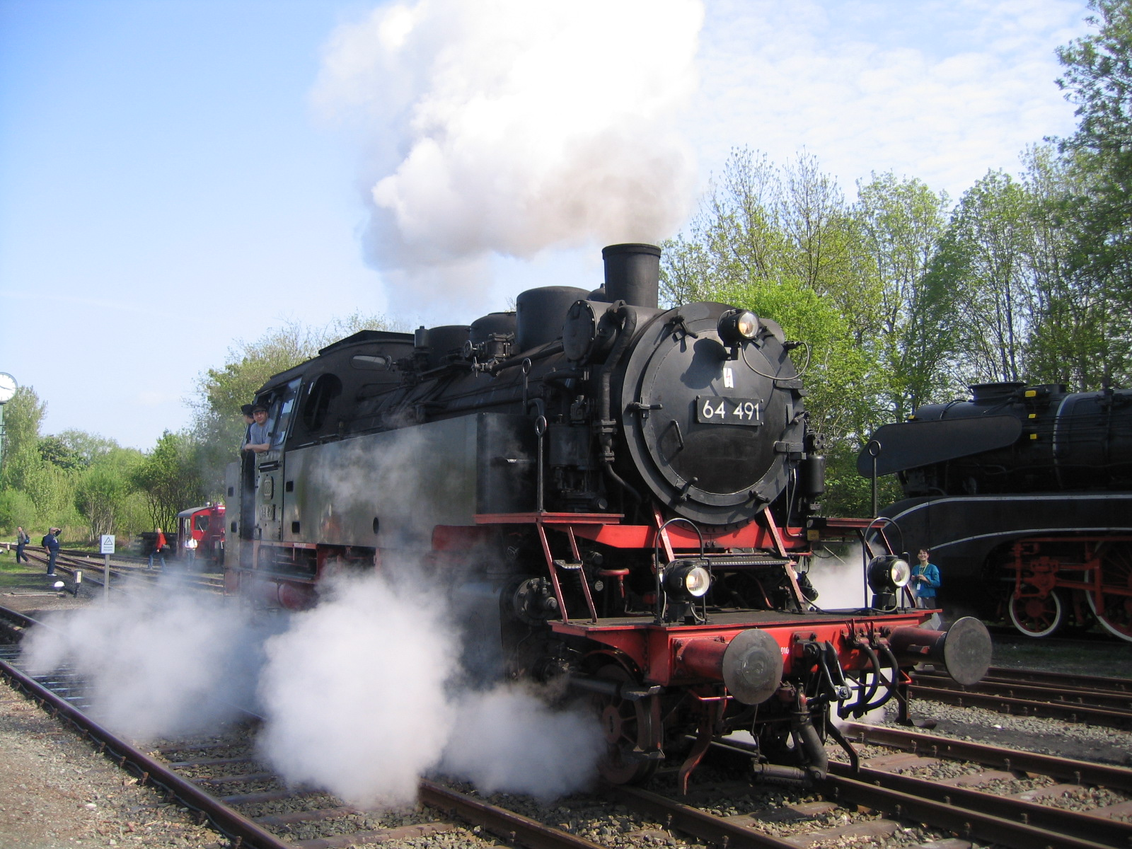 Steam locomotive DRG Class 64 at Neuenmarkt in Bavaria in Germany.